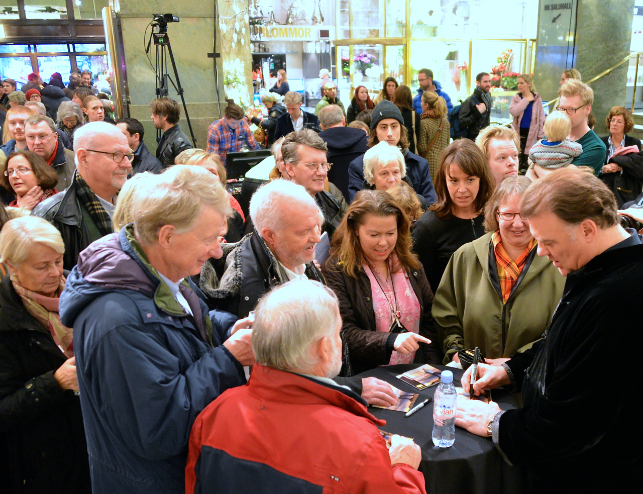 Bryn Terfel in Stockholm in december 2013.